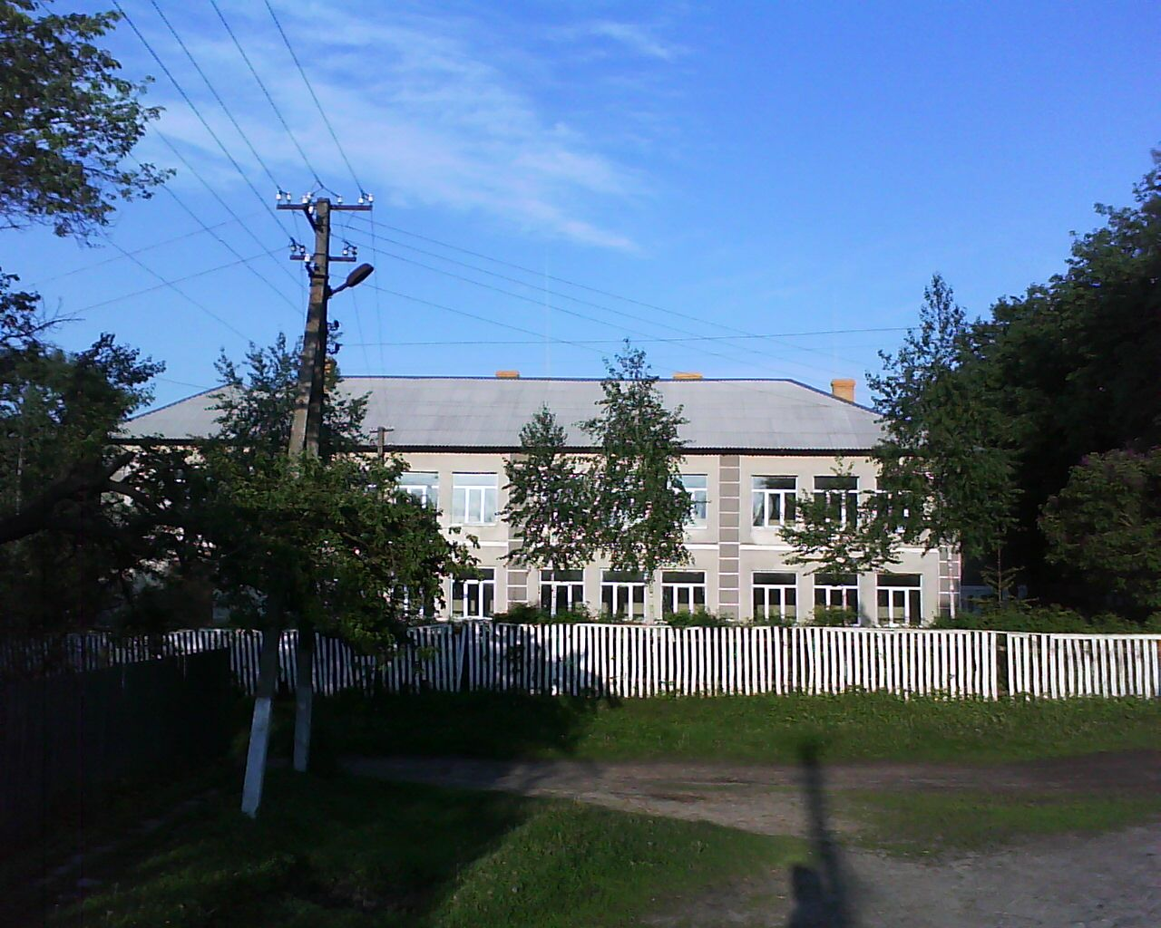 Holovli. School